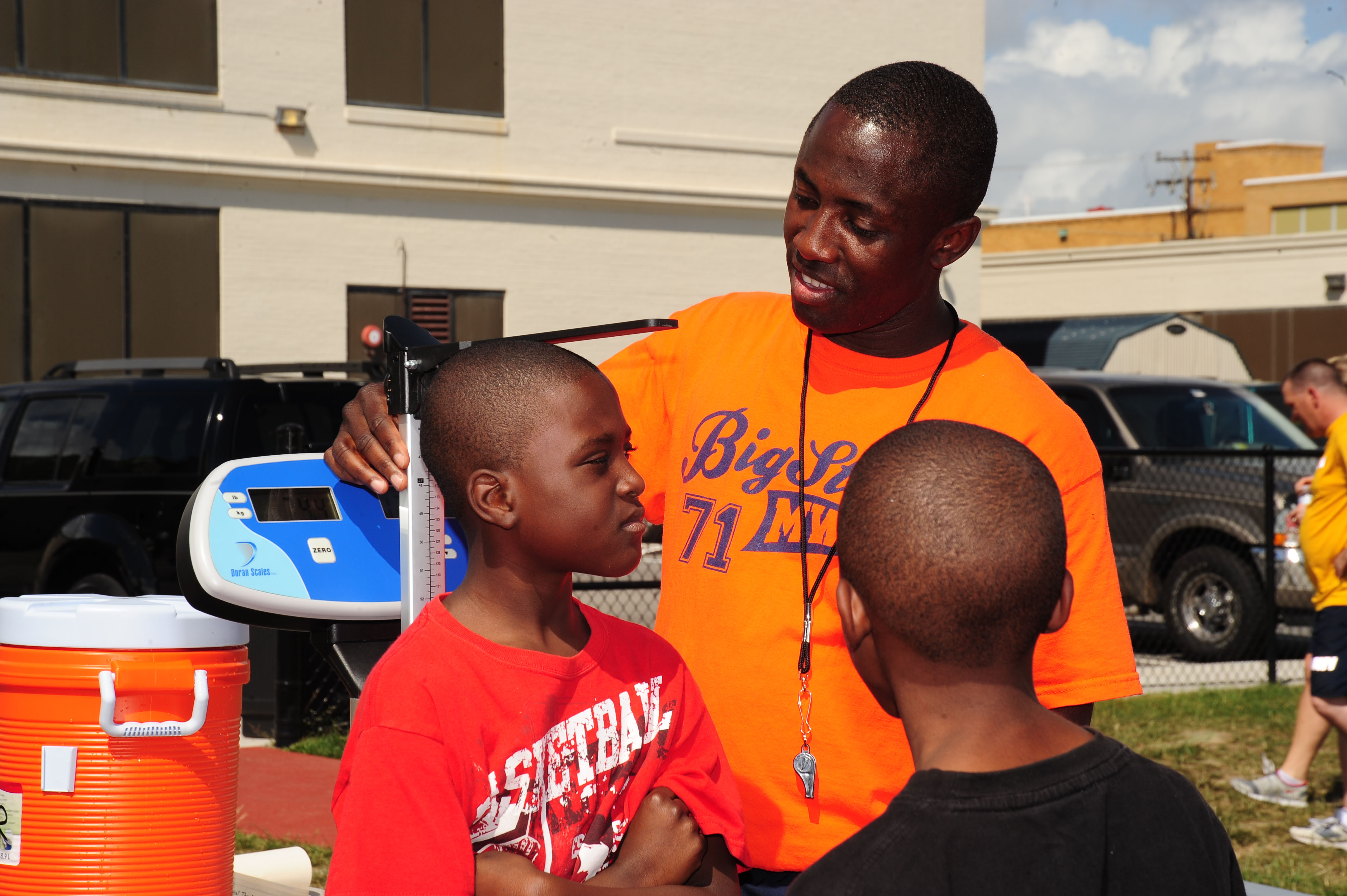 NEWPORT NEWS, Va. (April 26, 2011) Logistics Specialist 1st Class Alhaji M. Kabba, a command fitness leader aboard the aircraft carrier USS Theodore Roosevelt (CVN 71), measures the height and body weight of a student from Lindenwood Elementary School. Sailors assigned to Theodore Roosevelt spent 10 weeks mentoring the students about the Navy's culture of fitness to prepare them for participation in the Navy Physical Fitness Assessment. (U.S. Navy photo by Mass Communication Specialist Seaman Cory C. Asato/Released)